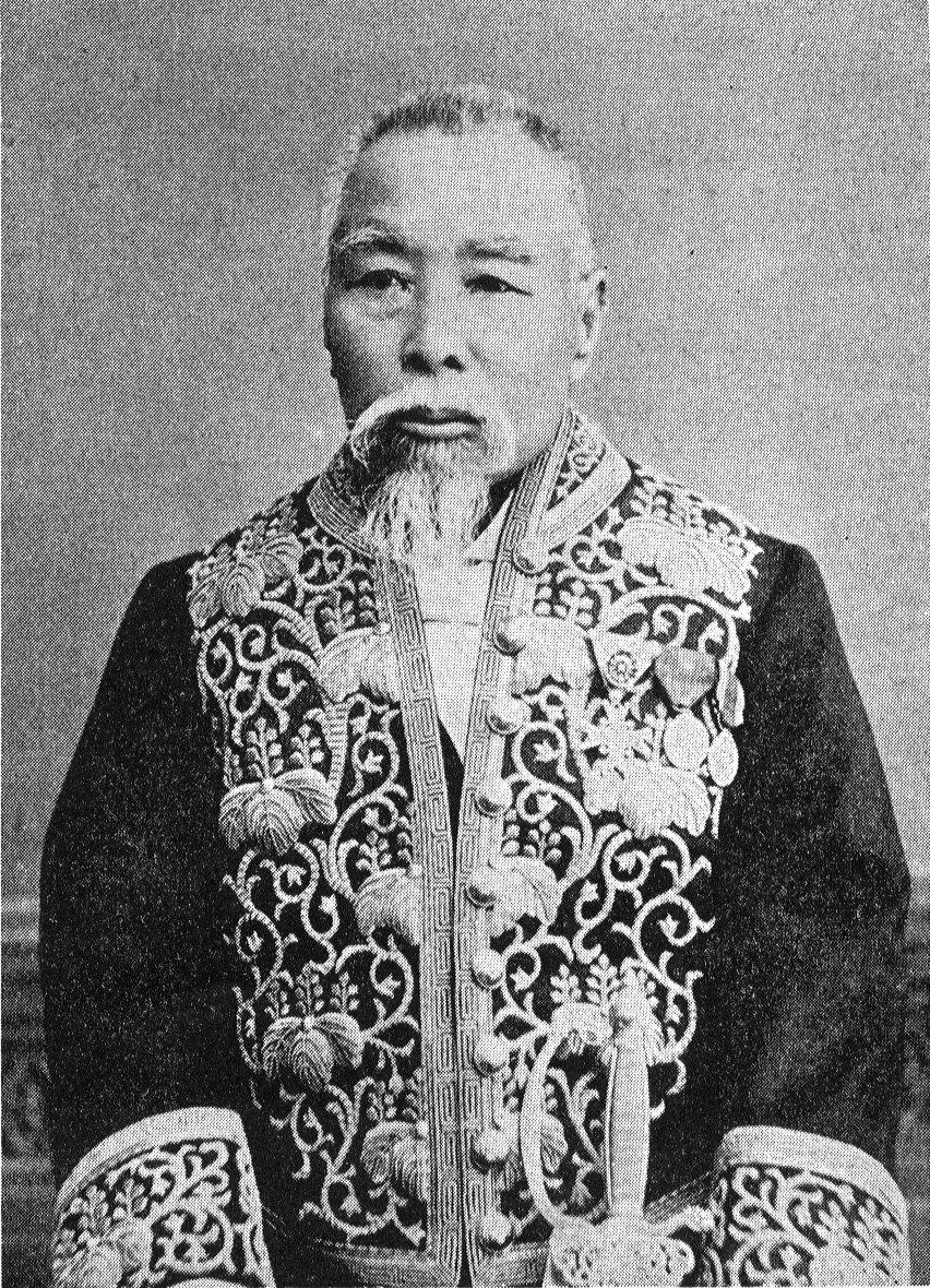 Kurokawa Mayori, The Member of Tokyo Academy